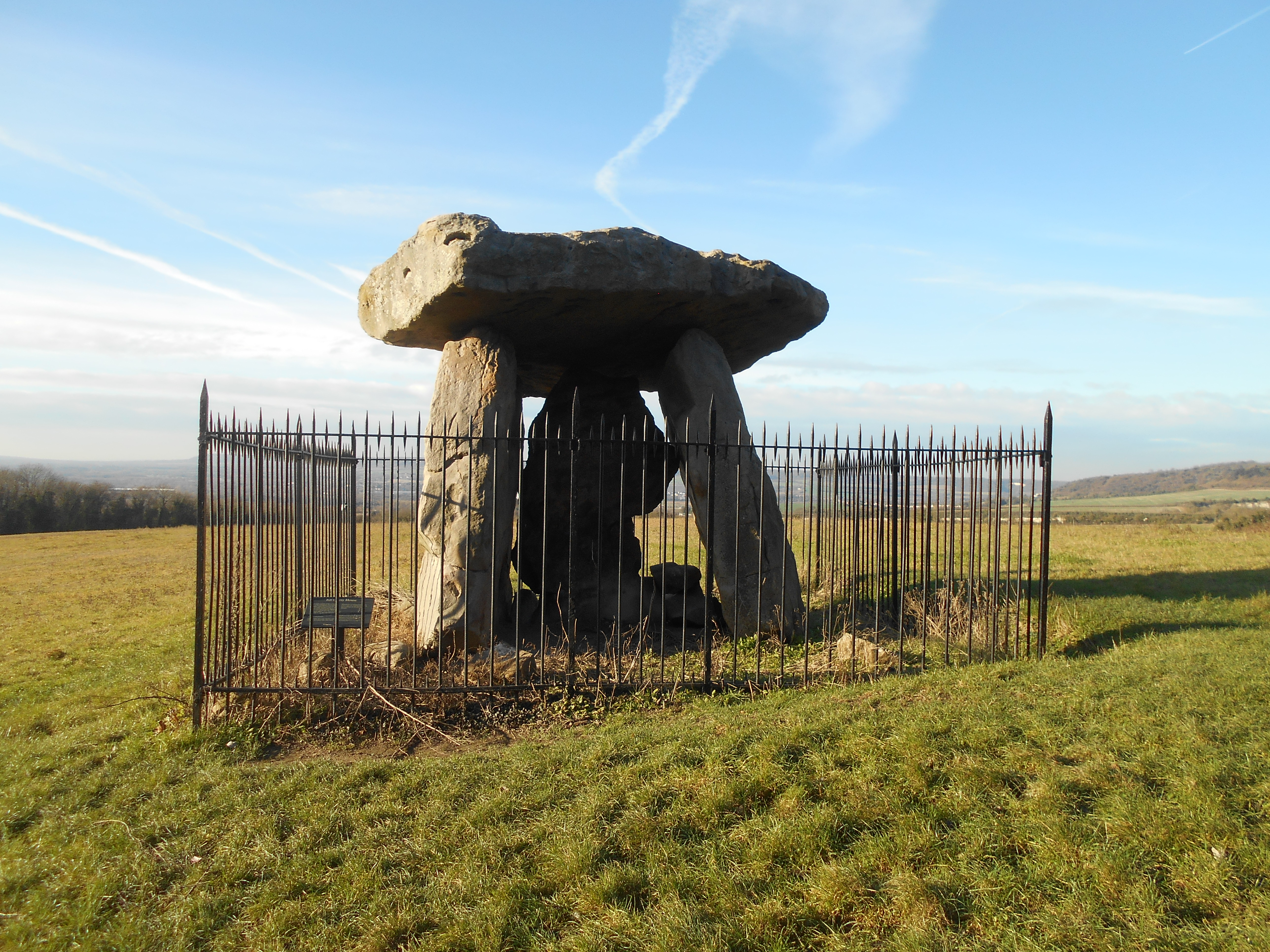 Kit's Coty House, a neolithic dolmen near Blue Bell Hill, Kent.